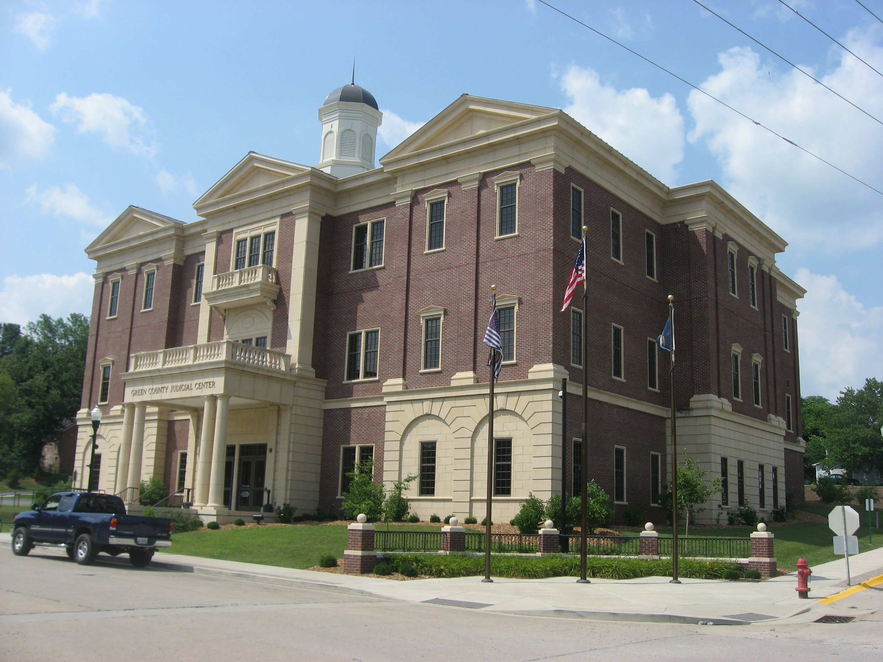 Front of the current Green County Courthouse, located at 203 W. Court Street in downtown Greensburg, Kentucky, United States.